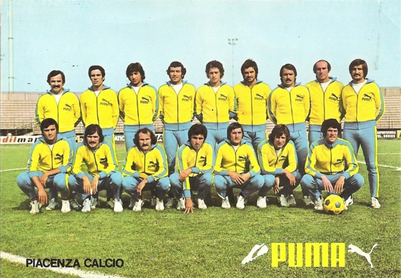 The first-team squad of Piacenza F.C. in the 1975–76 season. From left to right, standing: Franchi (masseur), S. Lazzara (moved during the fall market session), D. Penzo (moved during the fall market session), G. Regali (captain), A. Zagano, G. Candussi, D. Landini, Pizzasegola (masseur), N. Gottardo; crouched: L. Vetere, G. Gambin, M. Manera, G. Asnicar, E. Tolin, L. Righi, P. Bonafè.